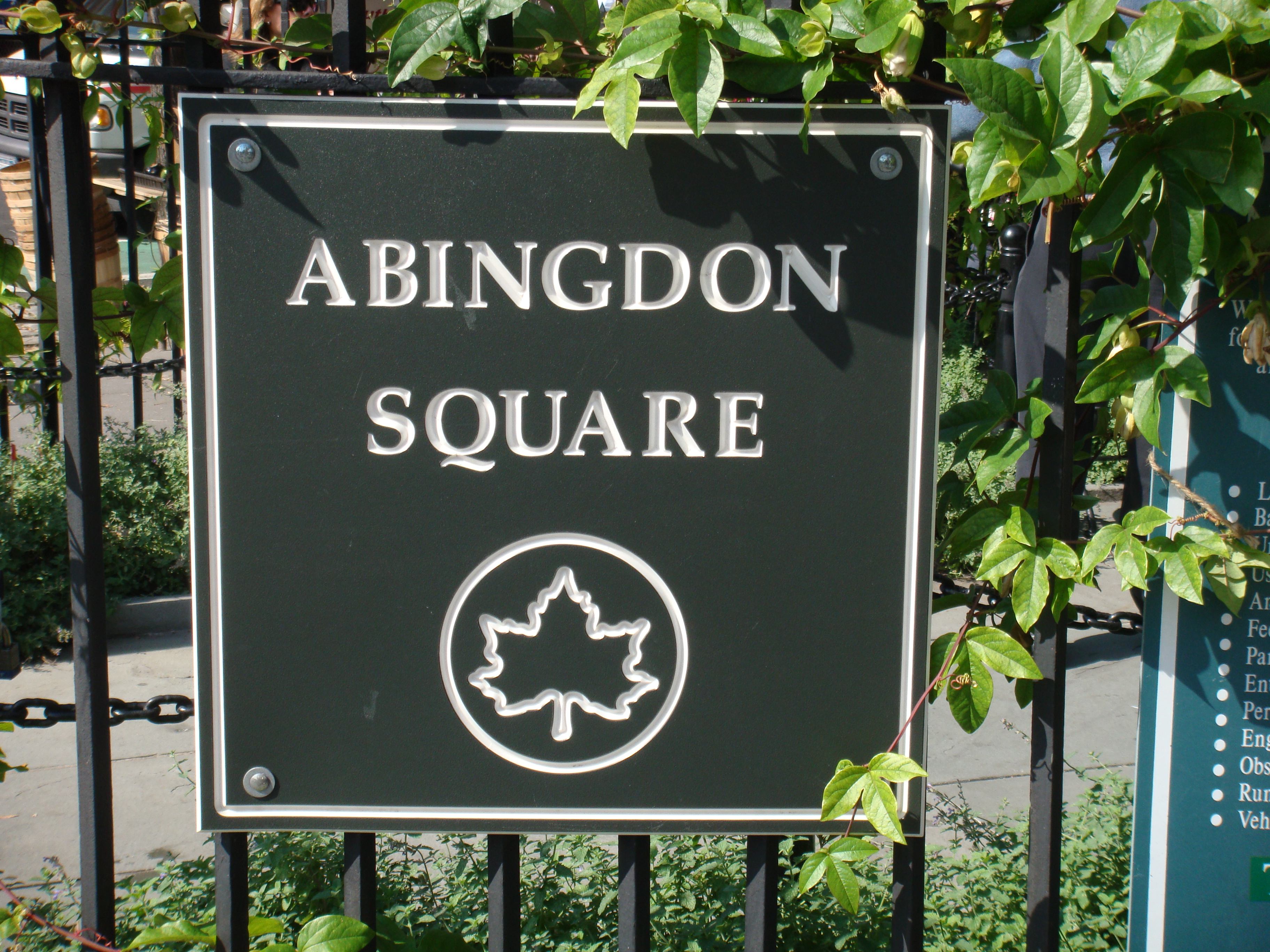 A nameplate for Abingdon Square Park in Manhattan, New York City, New York, USA. This photo is of Wikis Take Manhattan goal code F27, Abingdon Square Park.